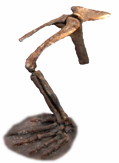 The fossilized backleg of Turfanosuchus, an extinct archosauromorph from the Middle-Triassic of China.